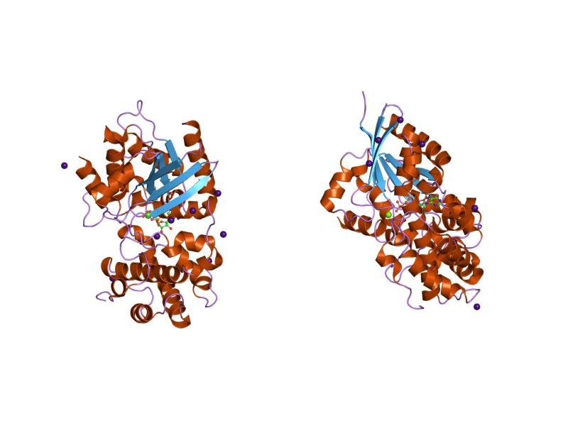 Cartoon representation of the molecular structure of protein registered with 1kjy code.